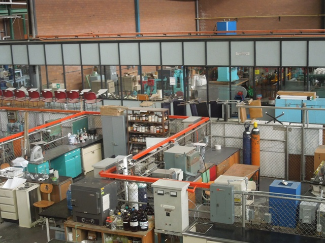 ESIQIE, Metallurgical Lab.